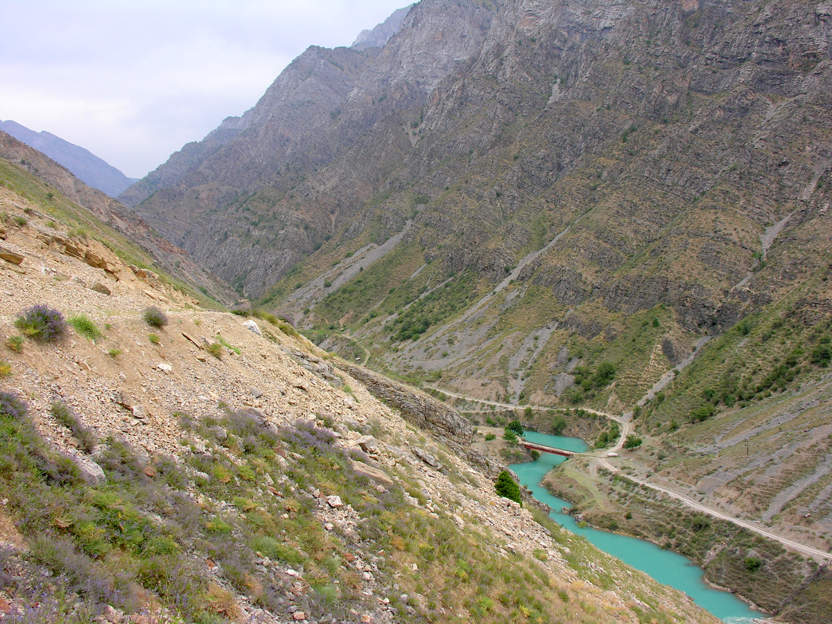 Koksu, Uzbekistan